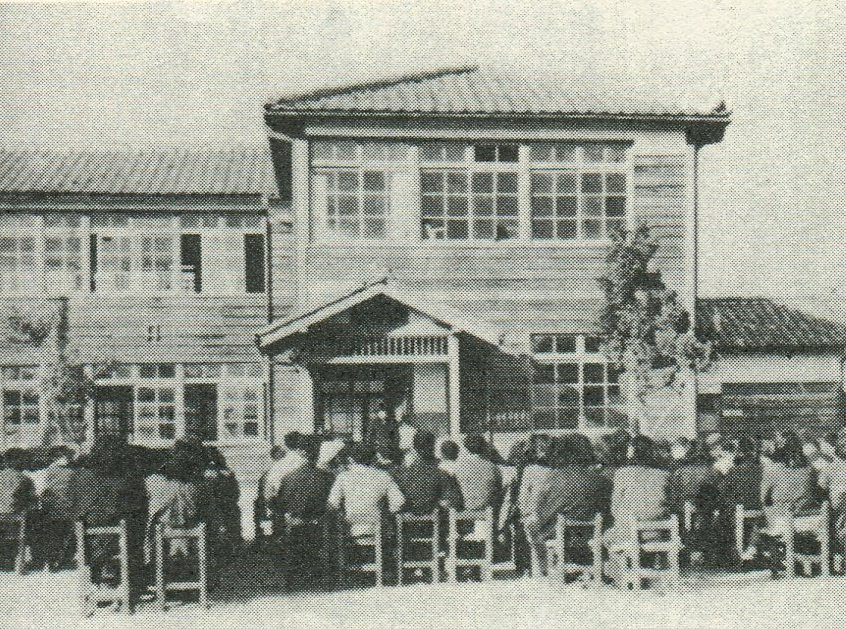 Kurumi junior high school Schoolwide rally